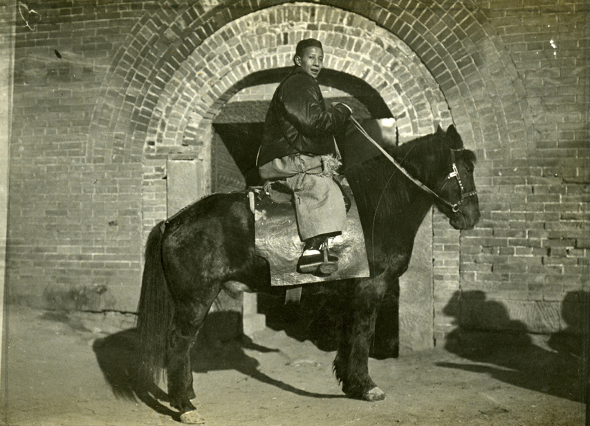 Creator: Sowerby, Arthur de Carle 1885-1954 Subject: China National Aviation Corporation Type: Black-and-white photographs Date: 1909 Topic: Horses Local number: SIA RU007263 [SIA2008-2872] Summary: On verso: "This photograph was taken by the Clark Expedition in Shensi, 1909. Note the large head, short neck, and sloping rump, typical points of a 'China Pony.'" Cite as: RU 7263 - Arthur de Carle Sowerby Papers, 1904-1954 and undated, Smithsonian Institution Archives Place: China Shaanxi Sheng (China) Persistent URL:Link to data base record Repository:Smithsonian Institution Archives View more collections from the Smithsonian Institution.